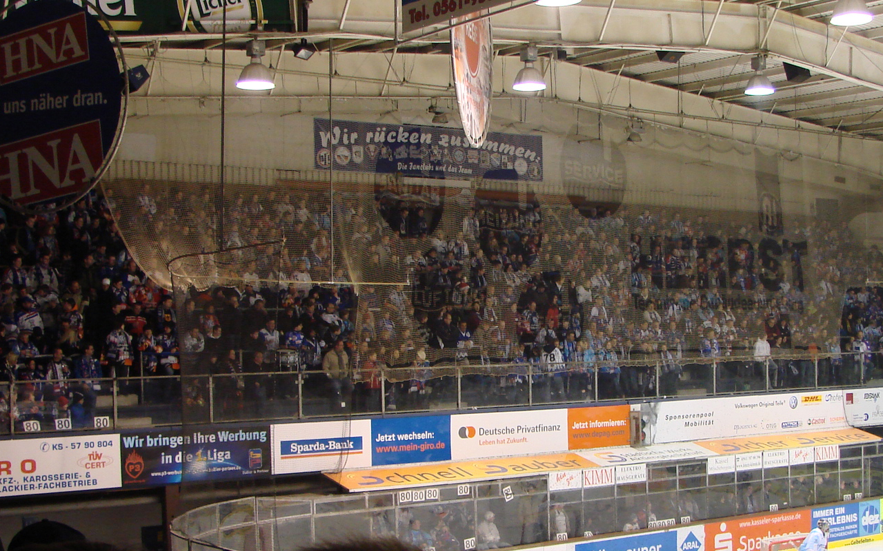 Heuboden at Eissporthalle Kassel